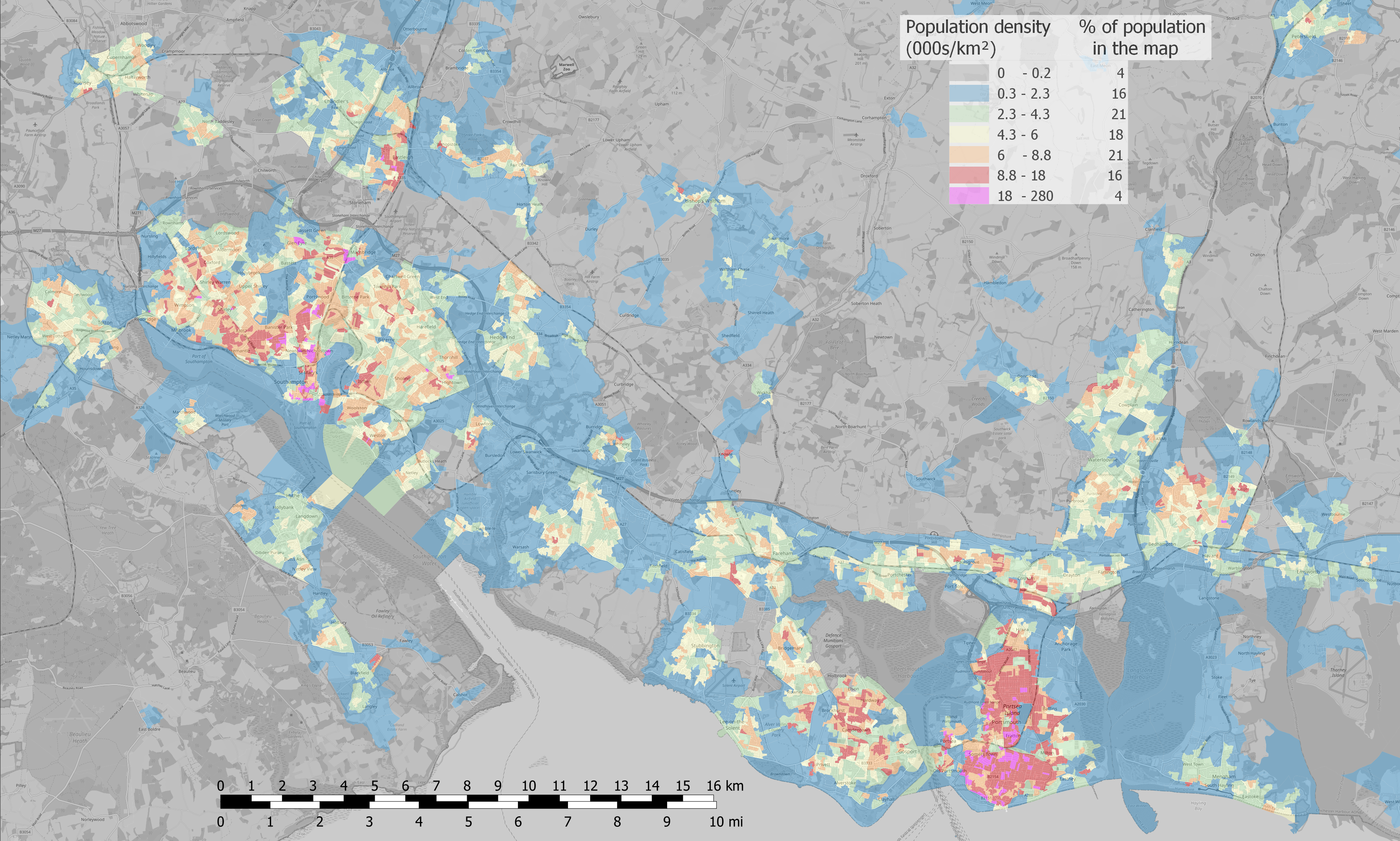 In 2011 the map area was inhabited by 1.1 mln people, 0.86 mln in Portsmouth and Southampton built-up area. Population density computed from 2011 Output Area (OE) data and there is on 2020 map so new housing estates are visible in the grey zone. Values sometimes are not representative because: sometimes a whole nonresidential area is contained in one from a few adjacent OEs. sometimes OEs encompass only building, sometimes only part of it, to keep up stiff household count limit, what gives very high density. OE boundaries are visible, especially in red and pink.